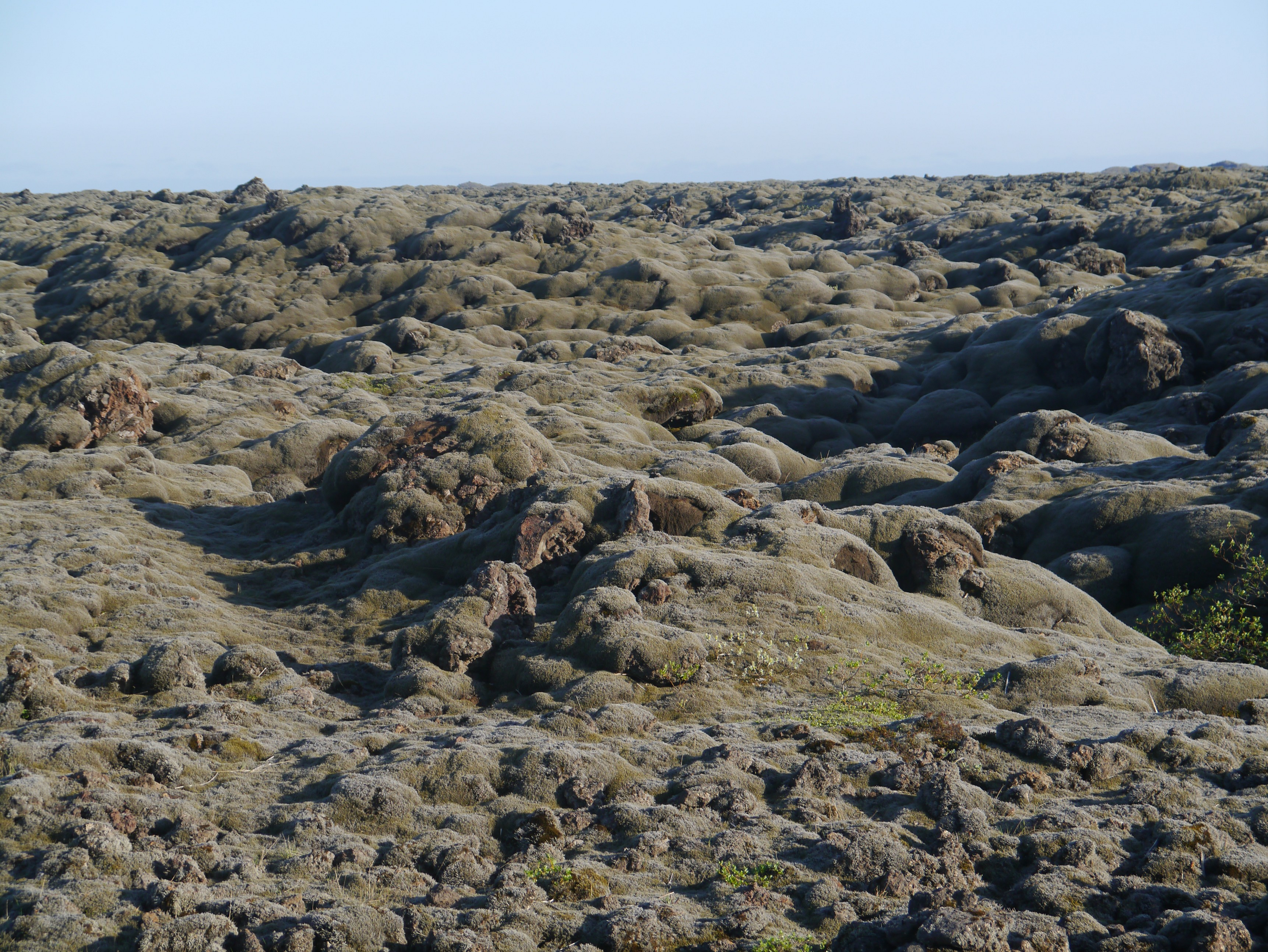 Lava desert at the Icelandic Southern Coast